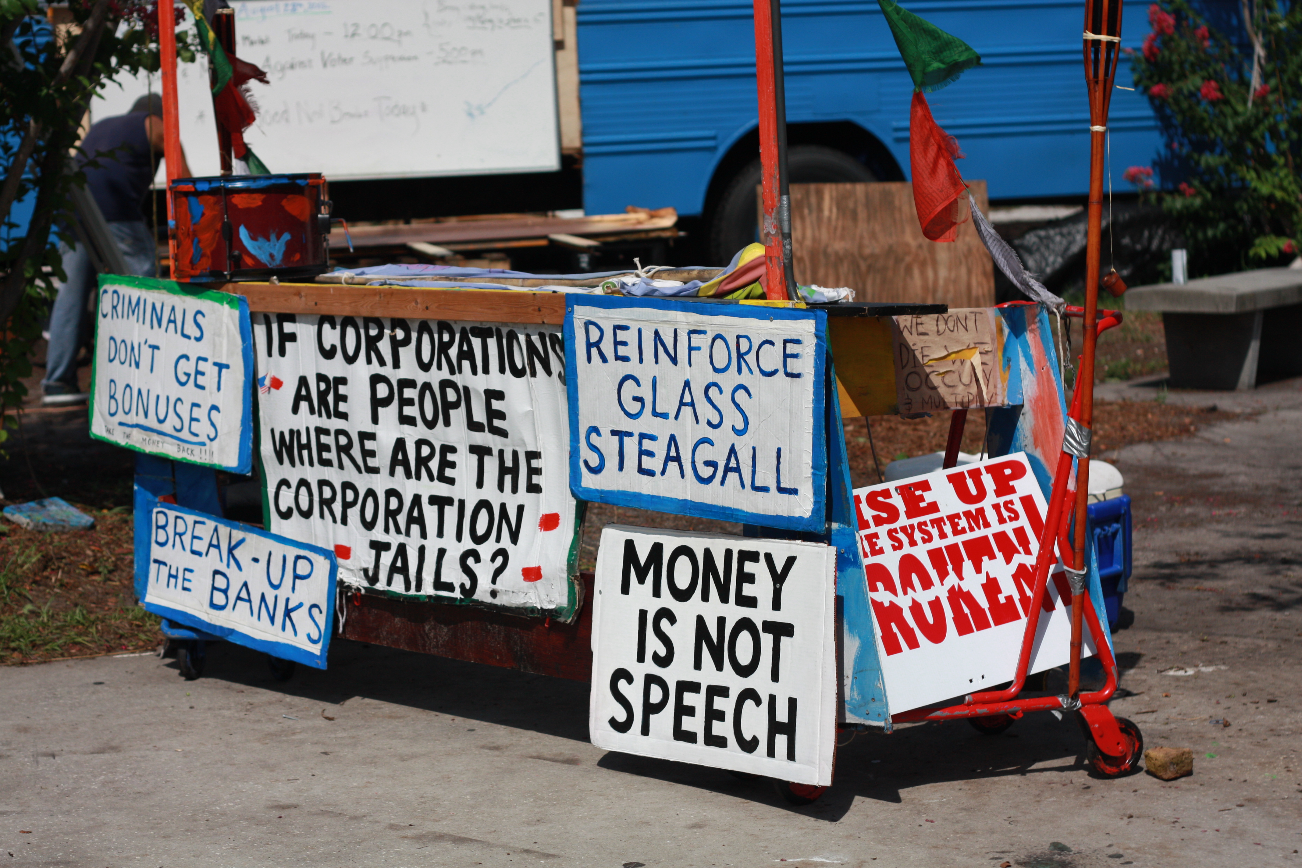 Occupy Tampa displays signs at the 2012 Republican National Convention.